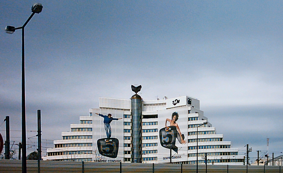 Headquarters of TMN (now known as MEO), building is known Edifício Marconi in Avenida Álvaro Pais